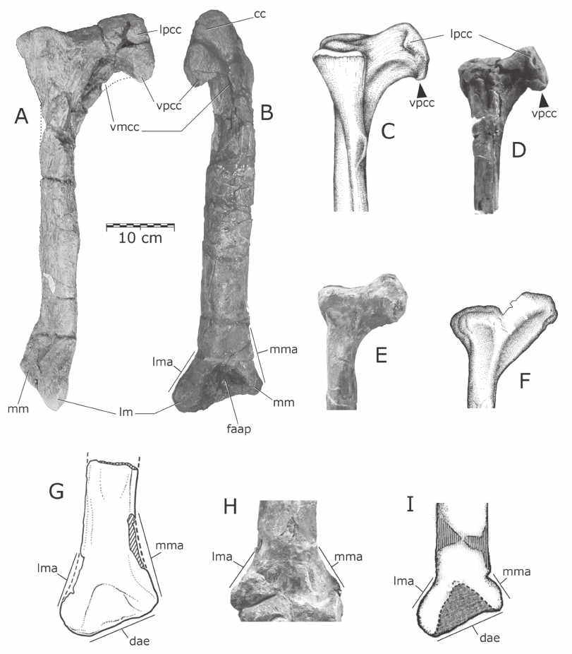 Fig. 2. Right tibia of Quilmesaurus curriei compared to other tibiae of Abelisauridae. A-B: Quilmesaurus curriei in lateral and anterior view; C: Aucasaurus garridoi, D: Genusaurus sisterornis, E and H: Ekrixinatosaurus novasi, F: Indosuchus raptorius (Courtesy of Dr. F. E. Novas), G: Rajasaurus narmadensis; I: Pycnonemosaurus nevesi Abbreviations: faap: facet for the ascending process of the astragalus; cc: cnemial crest; lm: lateral malleolus; lma: lateral margin of the malleolus; lpcc: lateral process of the cnemial crest; mm: medial malleolus; mma: medial margin of the malleolus; vmcc: ventral margin of the cnemial crest; vpcc: ventral process of the cnemial crest.